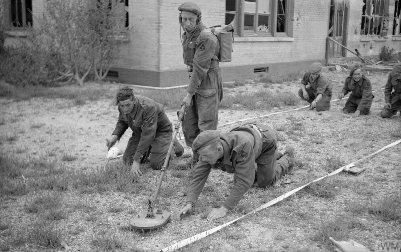 The British Army in Normandy 1944 Sappers clearing the last mines from the beach front of a former French luxury hotel, now in use as a rest club for troops of 3rd Division, 15 July 1944.